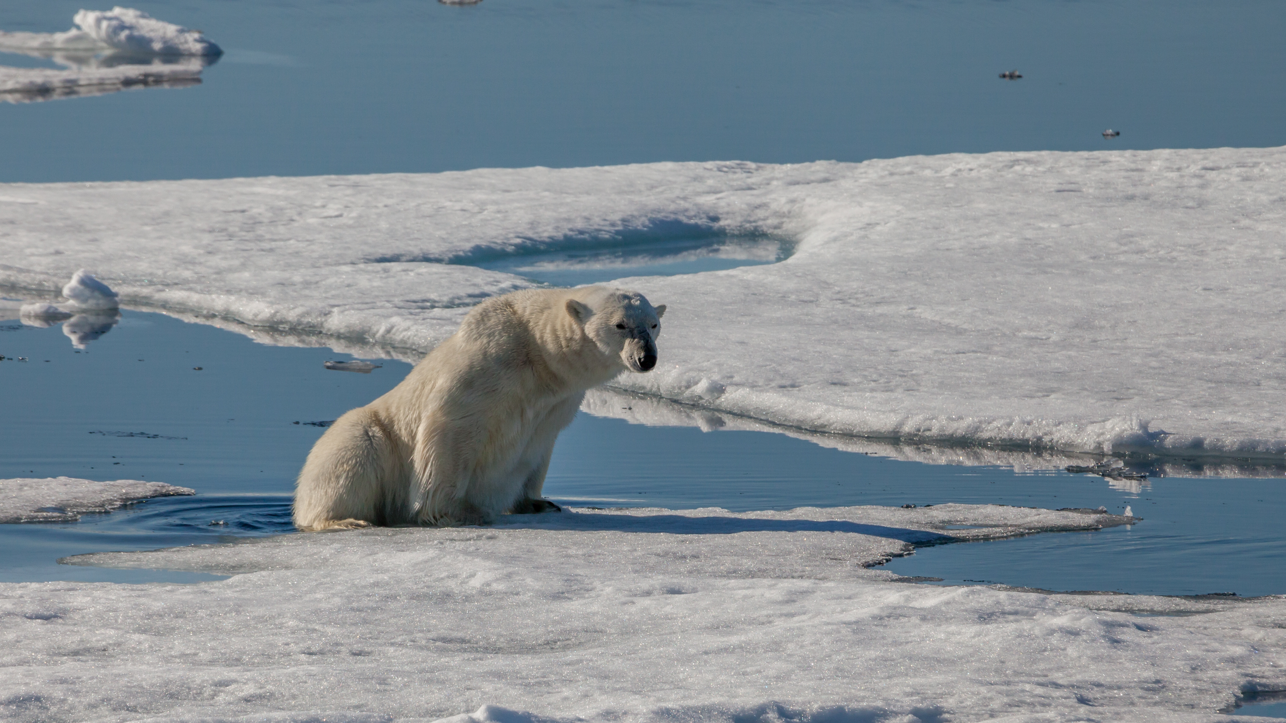 When the Polar bear (Ursus maritimus) is on the hunt for a prey, he is smart enough to act extremely silently. He glides into the water bottom first and thus produces neither sound nor waves.